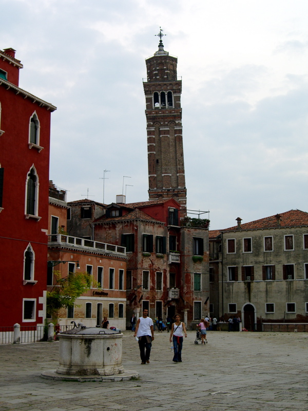 View of Campo Sant'Angelo with the leaning tower of Santo StefanoCampanile, Venice